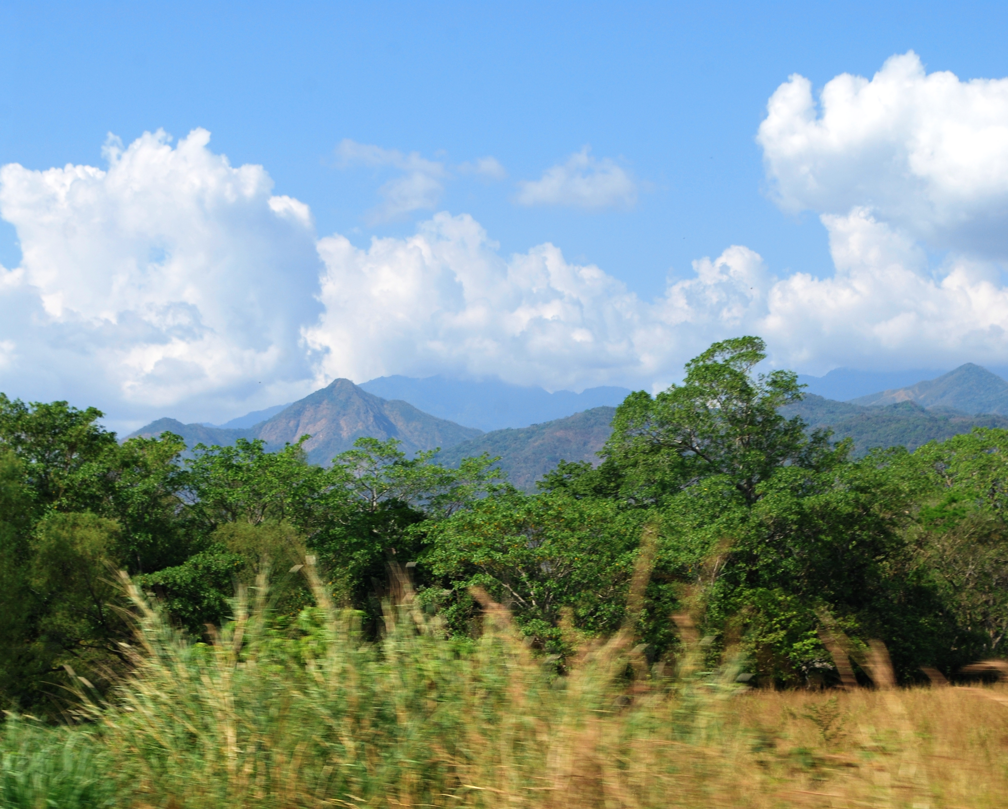 Mountain scenery off Highway 200 in the Huixtla municipality of Chiapas